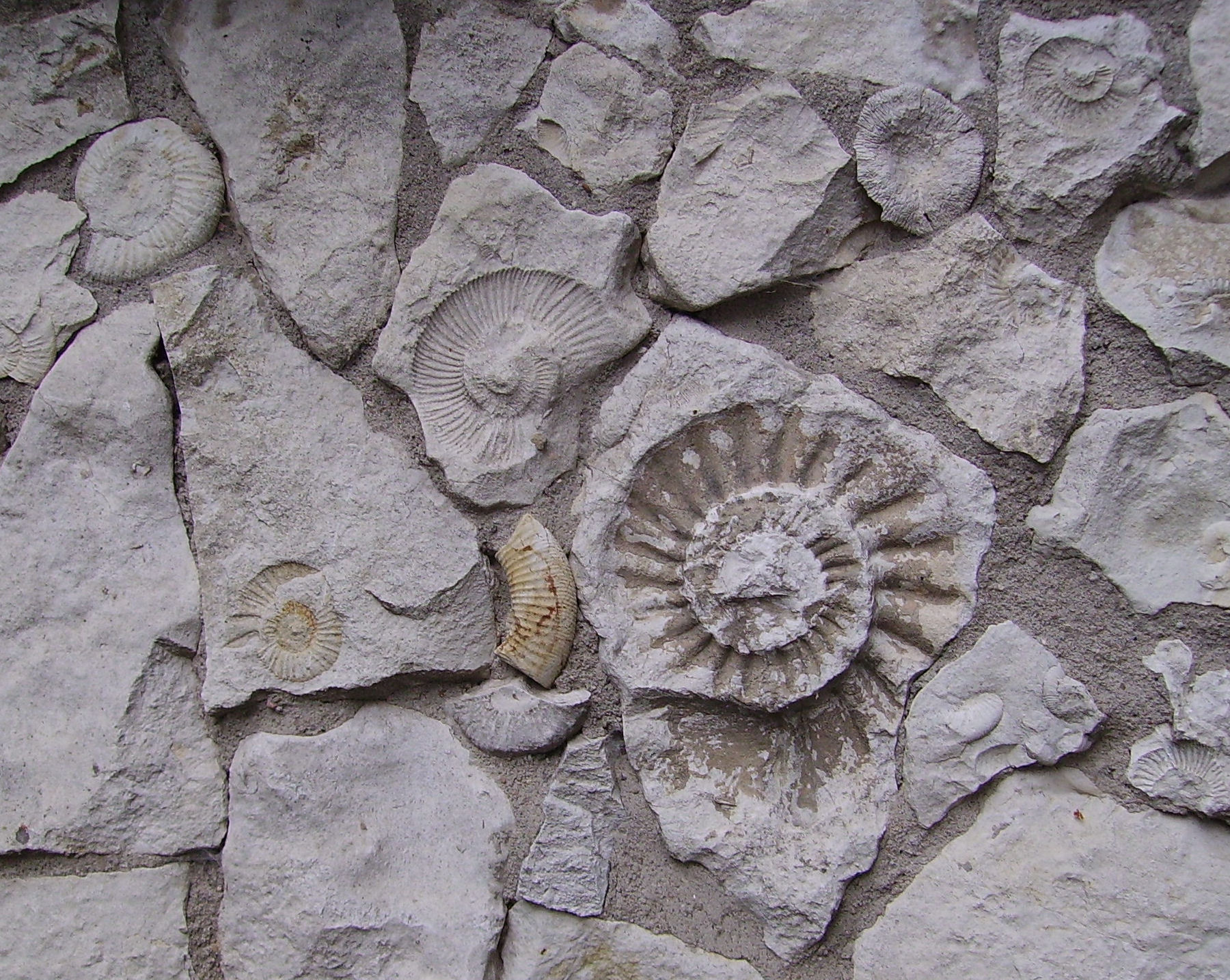 Wall in Laibarös, Germany